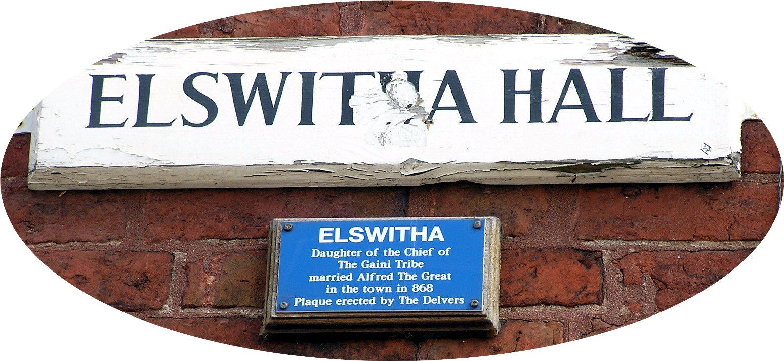 plaque at Elswitha Hall, Gainsborough